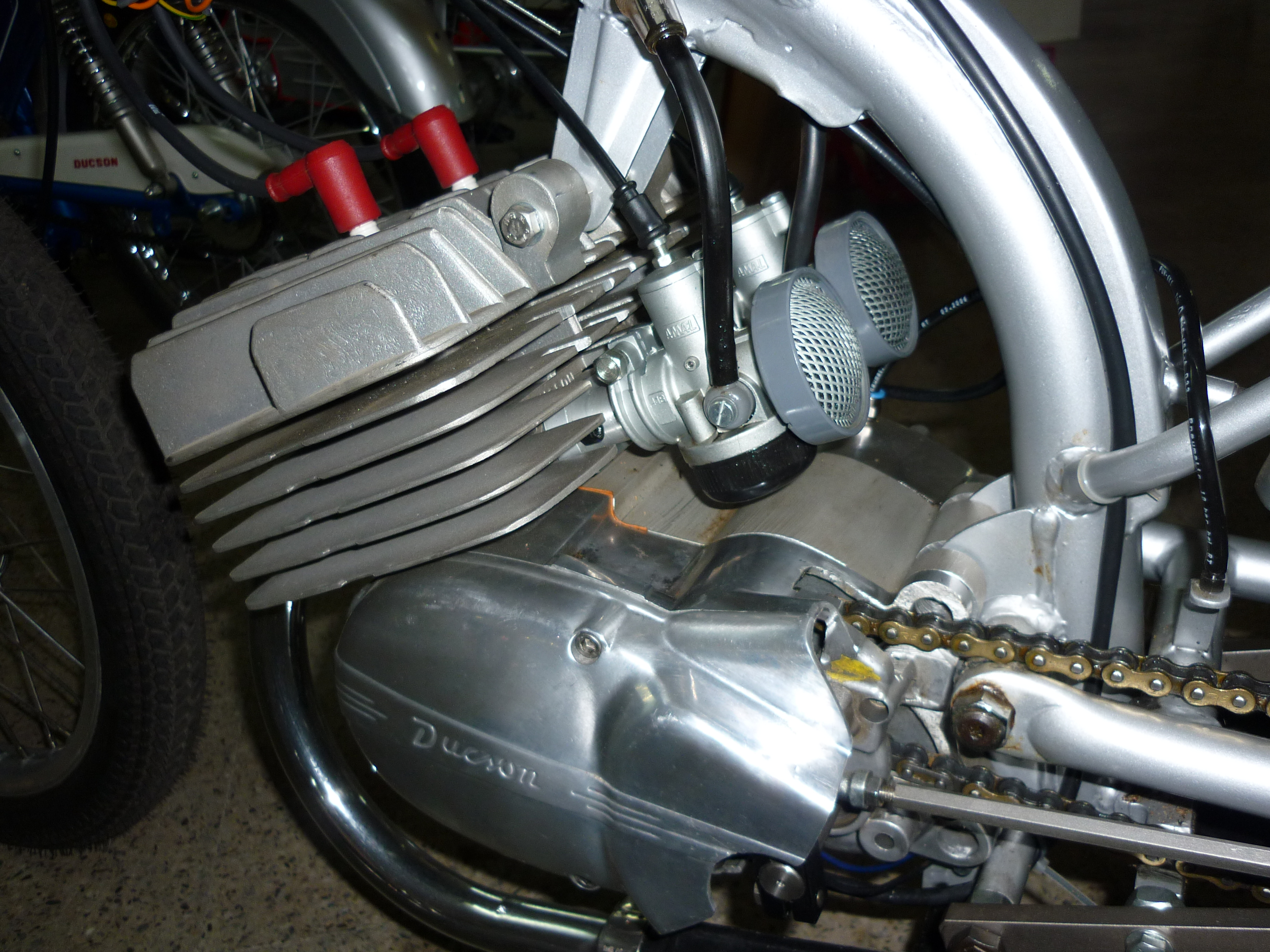 Ducson two cylinders racing motorcycle engine (60's). Isern Motorcycle Museum, Mollet del Vallès (Catalonia).